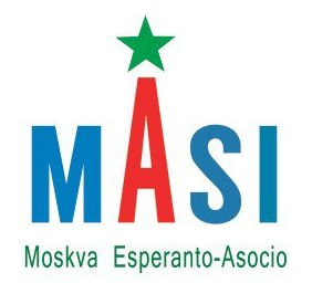 the logo of Moscow Esperanto Association MASI